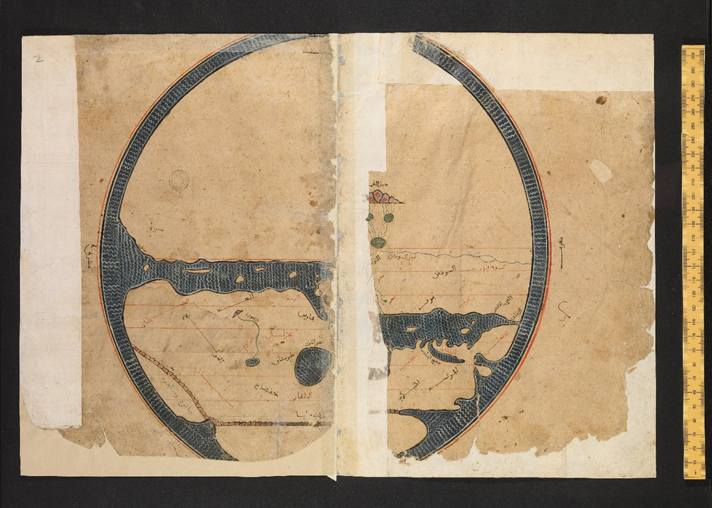 World map. From the 'book of pleasant journeys into faraway lands', or 'Book of Roger', Tabula Rogeriana. Undated, ca. 14th or 15th-century manuscript of al-Idrisi's description of the world composed in 1152. This manuscript contains the first three portions (of seven) of al-Idrisi's medieval Arabic geography, describing the known world from the equator to the latitude of North Africa, and from the Atlantic to Eastern China.